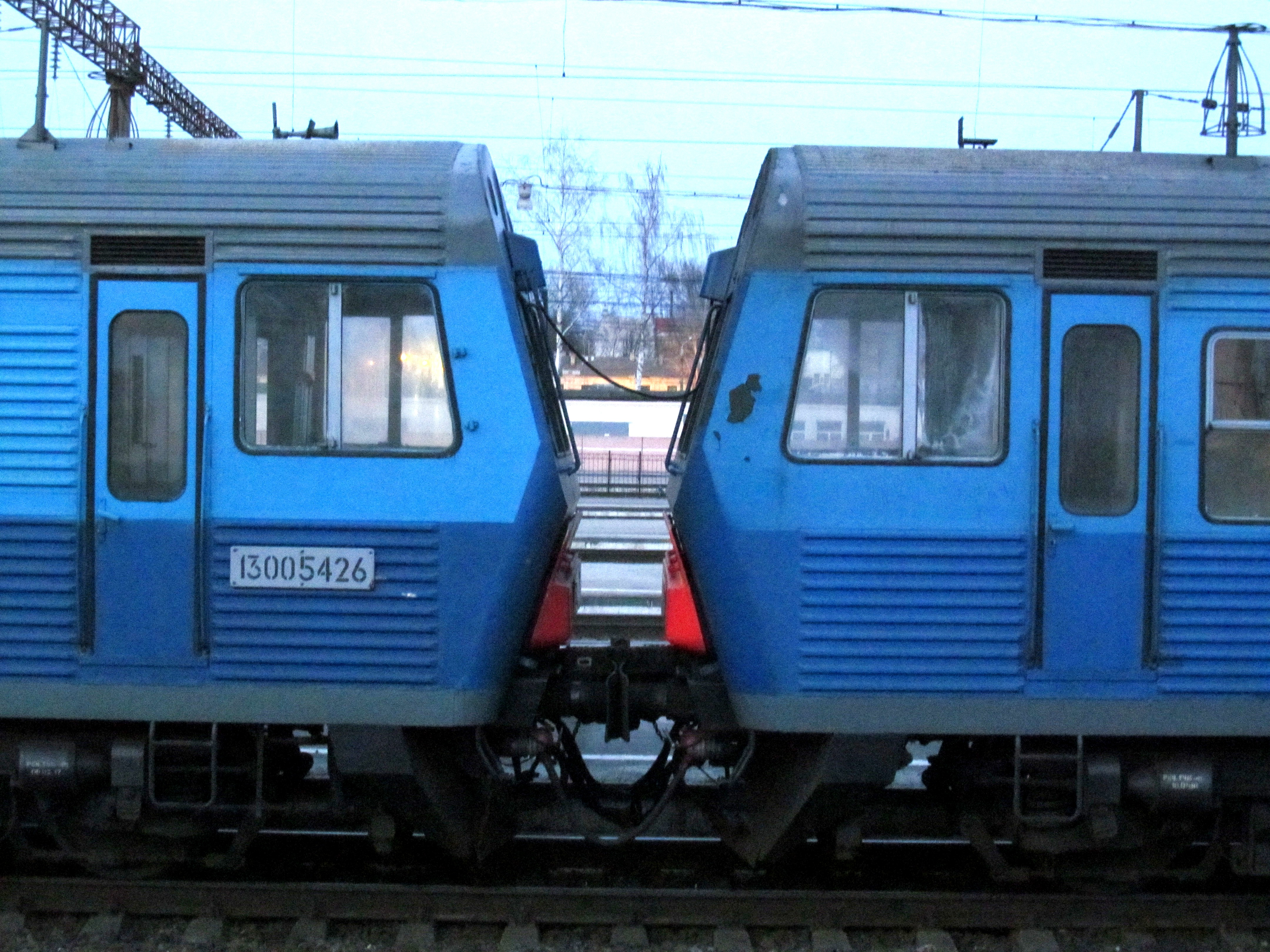 Car interconnection of two ACh2 railcars